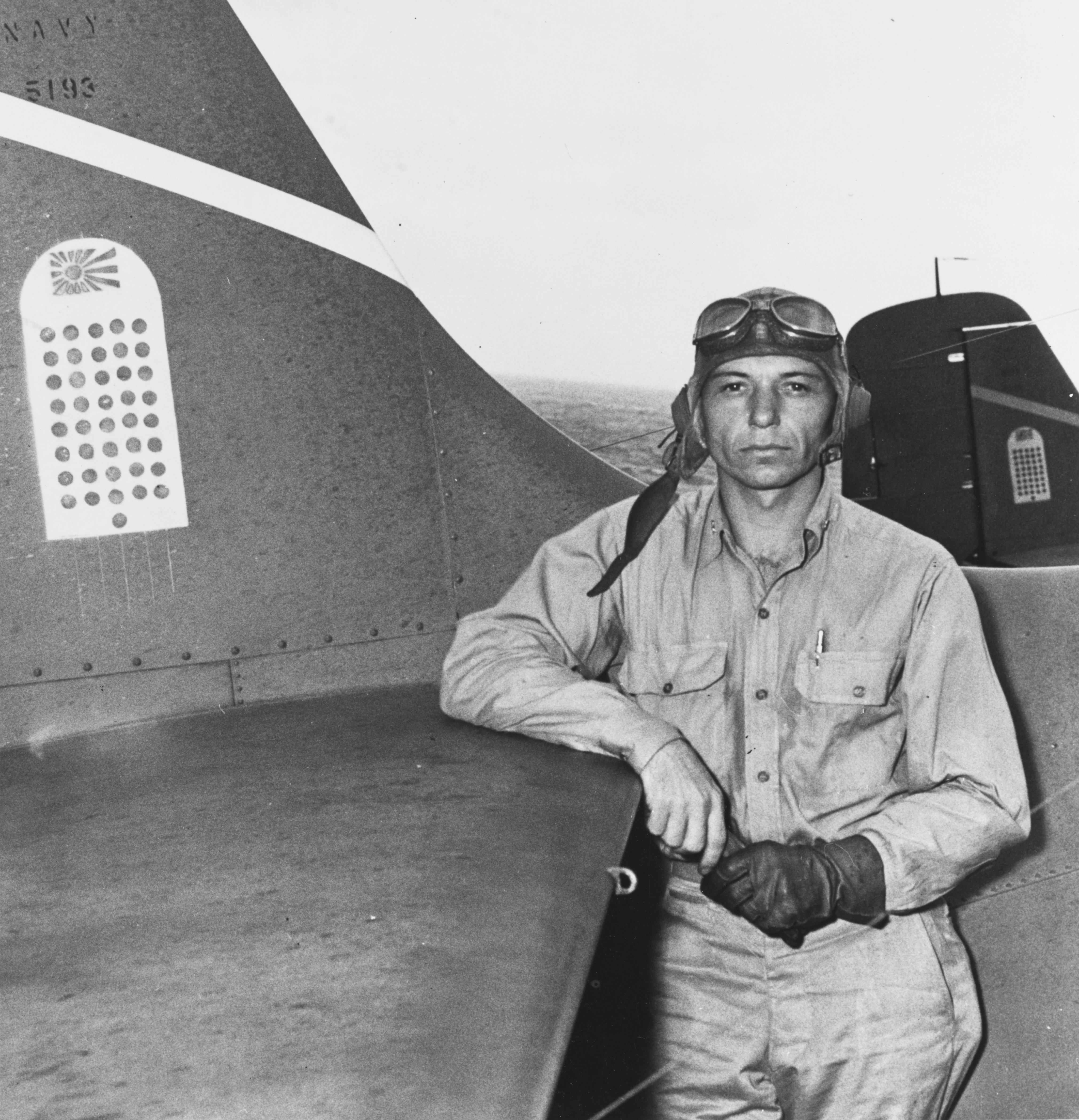 Machinist Donald E. Runyon, U.S. Navy, of Fighting Squadron 6 (VF-6) on board the aircraft carrier USS Enterprise (CV-6) on 10 September 1942, during the Guadalcanal campaign. He is standing by the tail of his Grumman F4F-4 Wildcat (BuNo 5193, VF-6's No. 13), which is decorated with a tombstone containing 41 "meatballs", each representing a Japanese plane claimed by the squadron. Runyon was one of the leading F4F aces, credited with shooting down 8 Japanese aircraft while flying Wildcats.